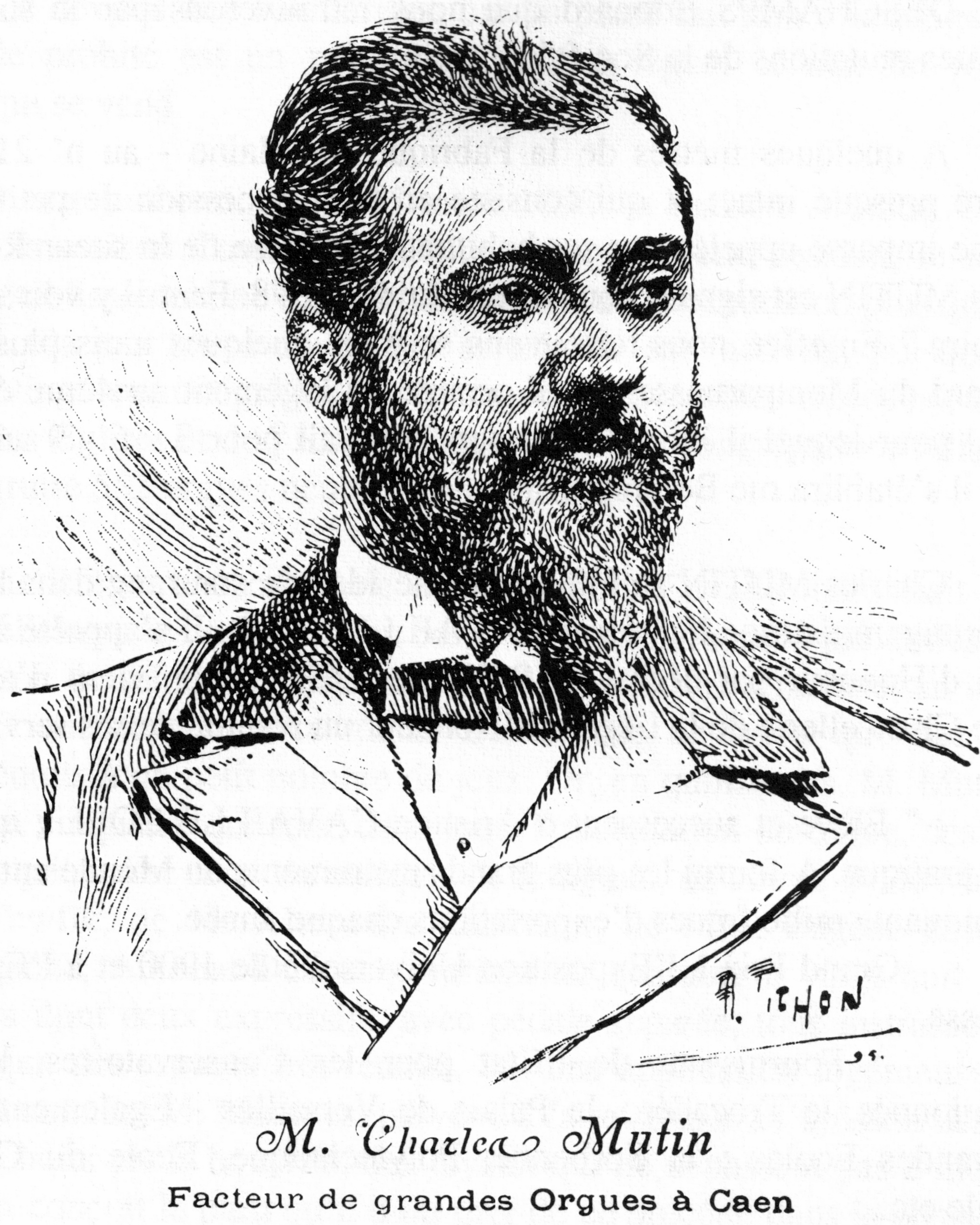 Charles Mutin, French organ builder, Le Monde Musical 30 january 1895